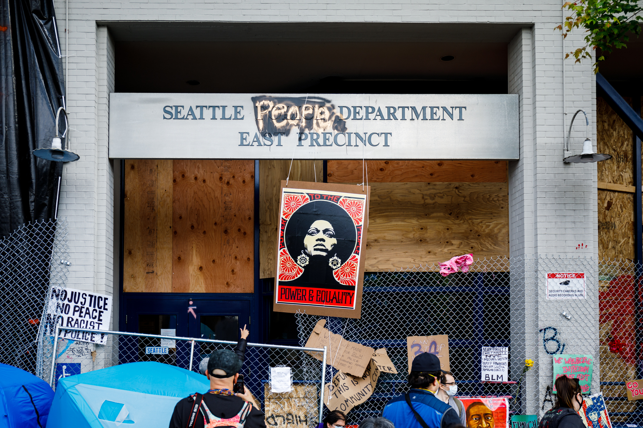 The abandoned Seattle Police East Precinct inside CHAZ / CHOP.